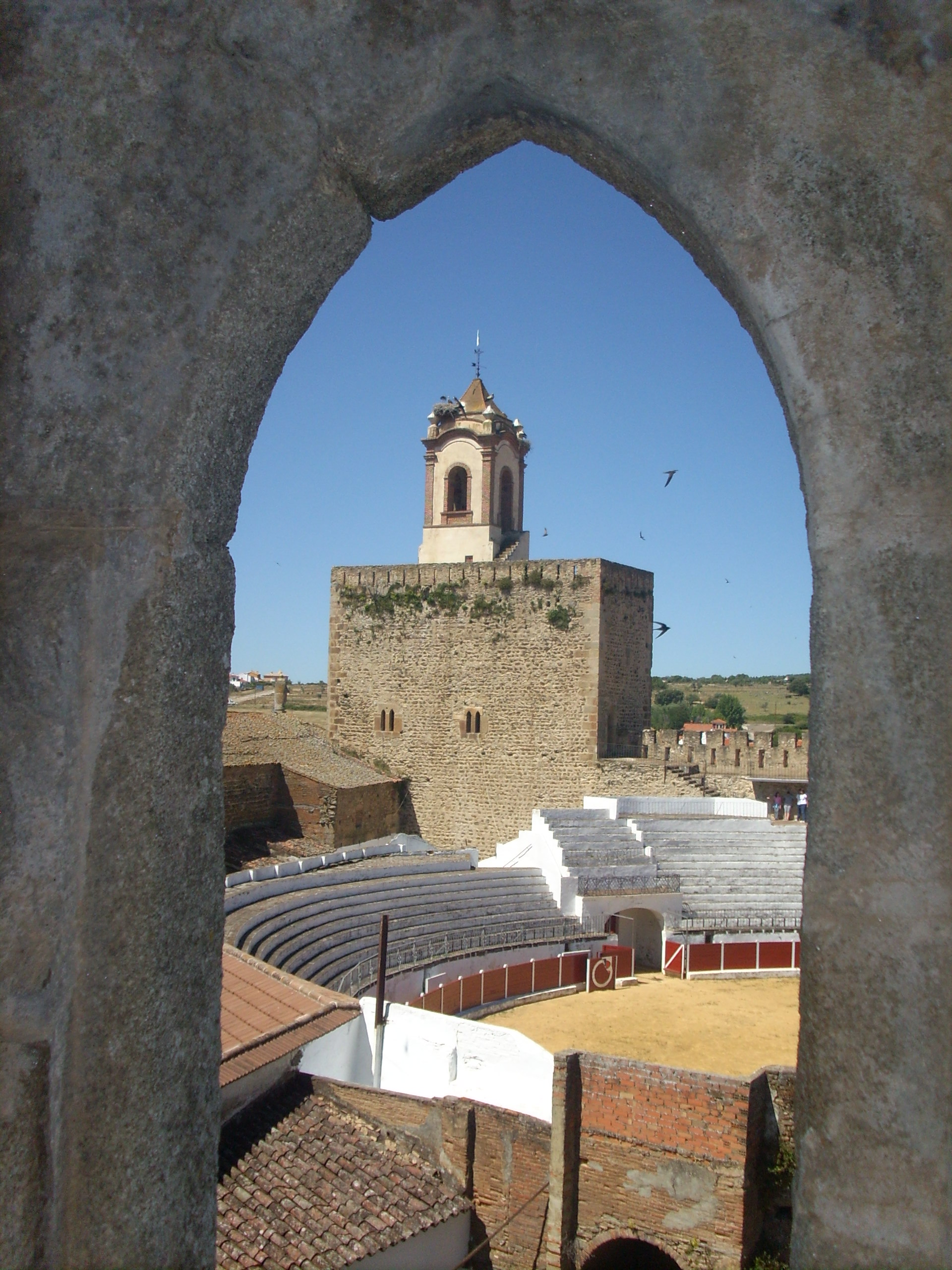 Castle of Fregenal de la Sierra (Badajoz).